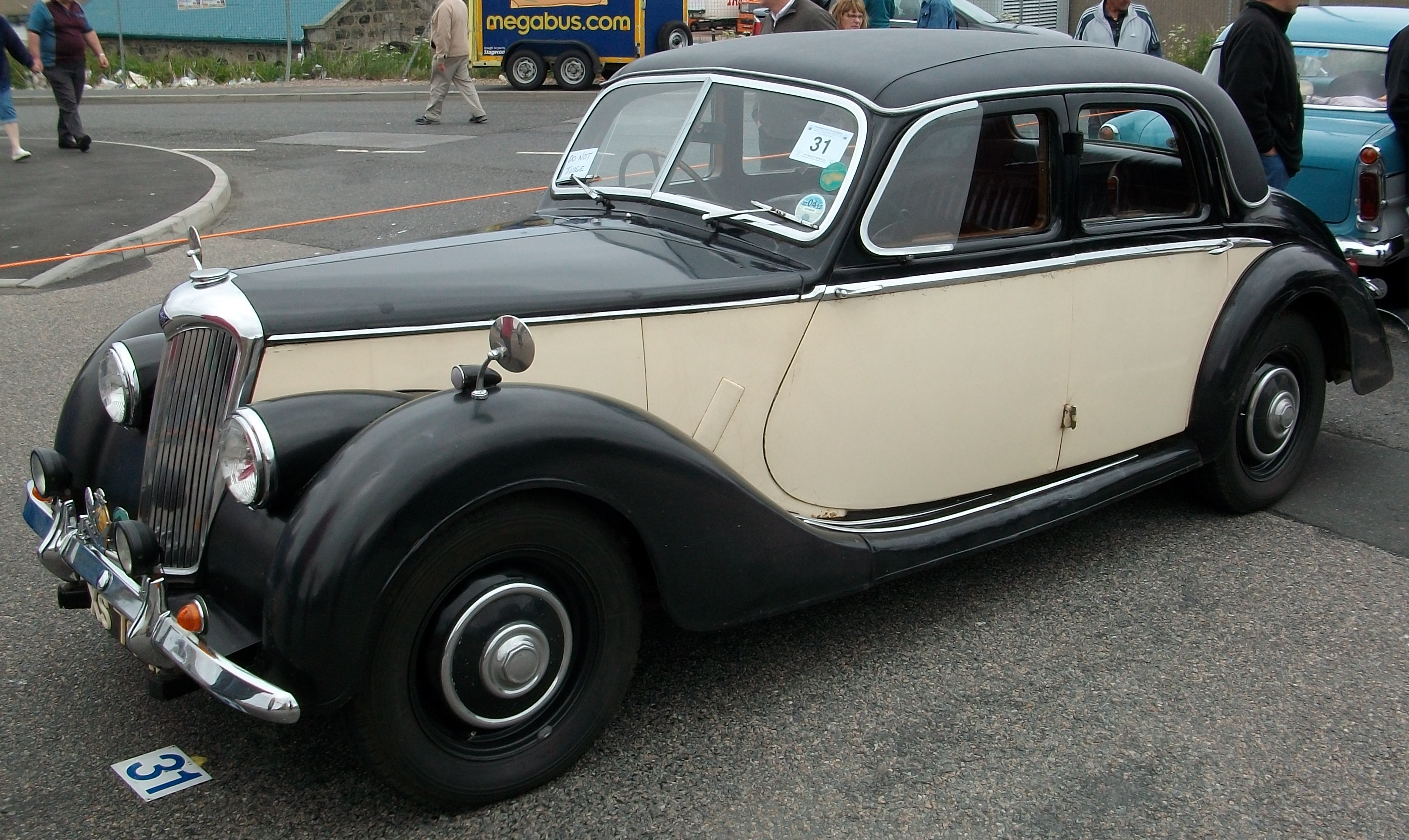 Riley 1½-litre RMA saloon(DVLA) manufactured 1952, 1496ccFraserburgh Vintage Car Rally, June 5th 2011